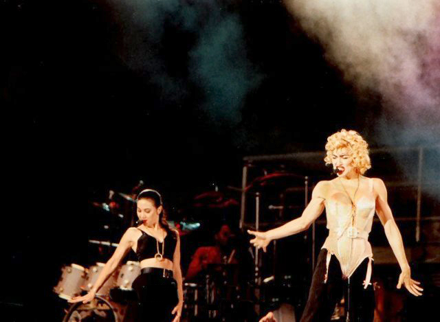 Photo taken by a fan during one of the concerts in 1990